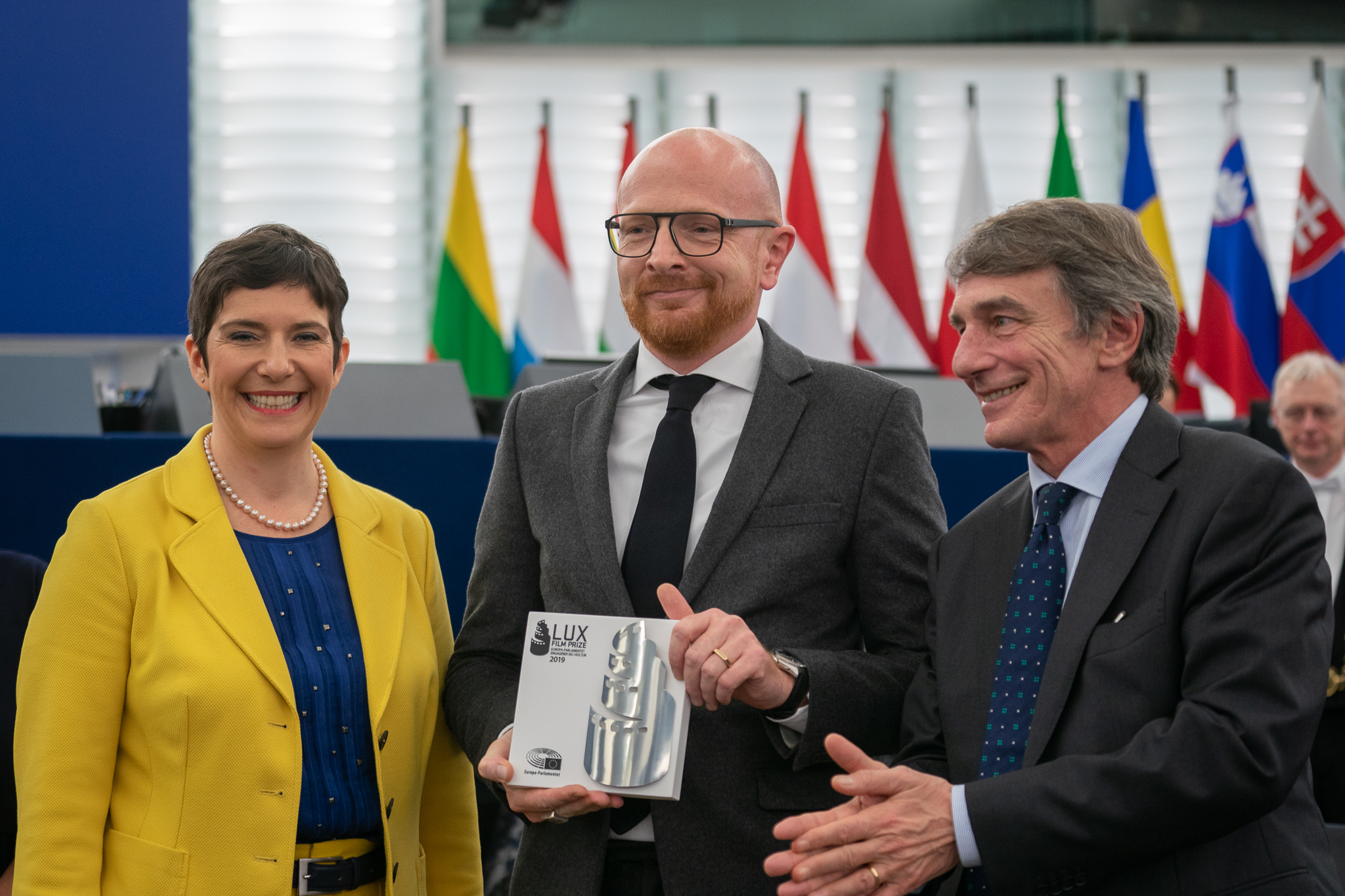 This photo is free to use under Creative Commons license CC-BY-4.0 and must be credited: "CC-BY-4.0: © European Union 2019 – Source: EP". No model release form if applicable. For bigger HR files please contact: webcom-flickr(AT)